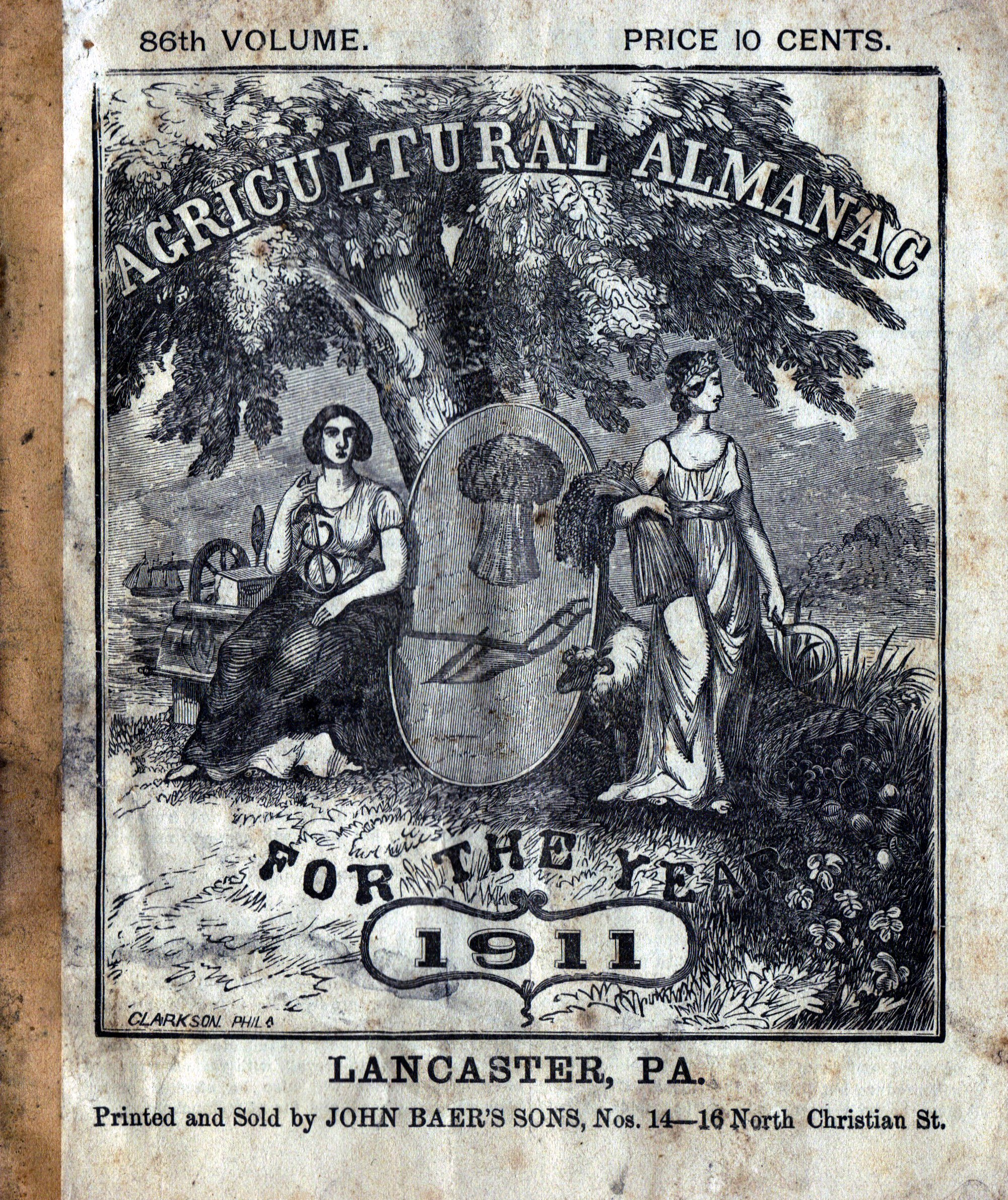 Cover-Image,John Baers, Agricultural Almanac, 1911